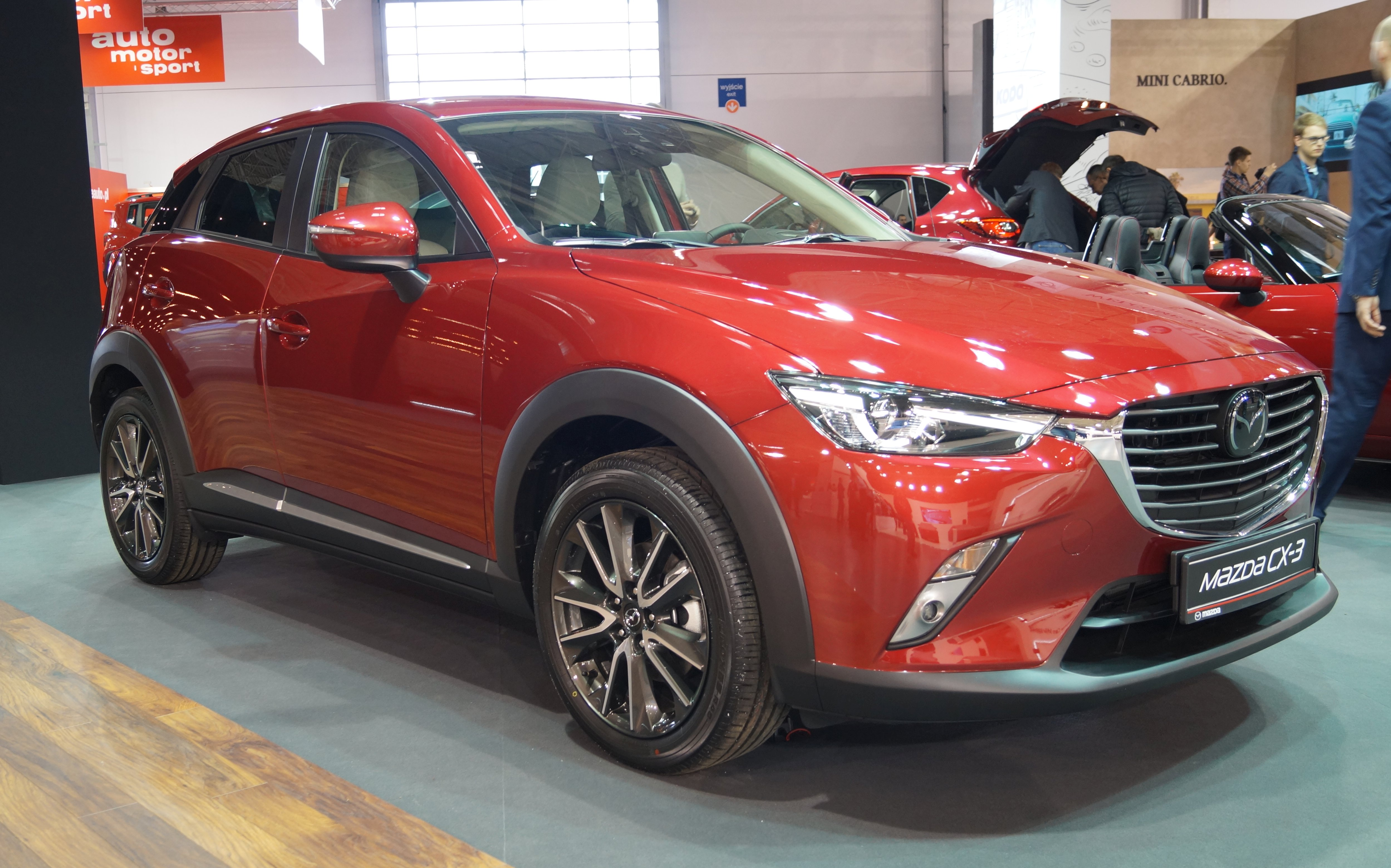 The making of this document was supported by Wikimedia Polska Association, within Wikigrant no. WG 2016-10. English | polski | +/− Mazda CX-3 na Motor Show Poznań 2016